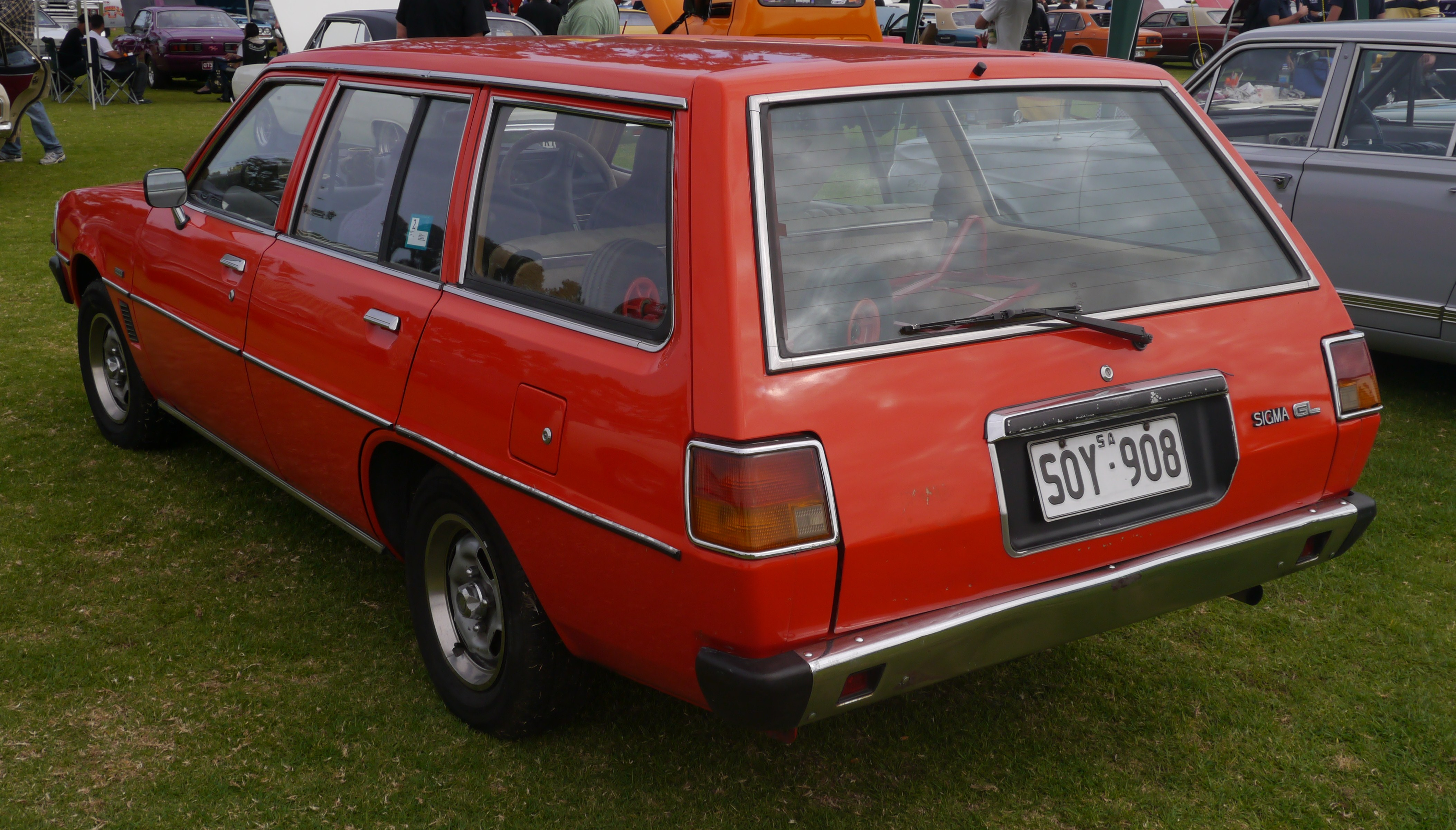 An Australian built Chrysler Sigma GL Wagon (GE Series) This is a Sigma GE Series, which would be built and sold in Australia under the Chrysler badge. It was replaced by the Chrysler Sigma GH Series in April 1980. In October 1980 the GH models were rebadged as the Mitsubishi Sigma, after Mitsubishi Motors Australia took over Chrysler Australia and it's Adelaide factory. Soon after this, Chrysler would exit the Australian market.